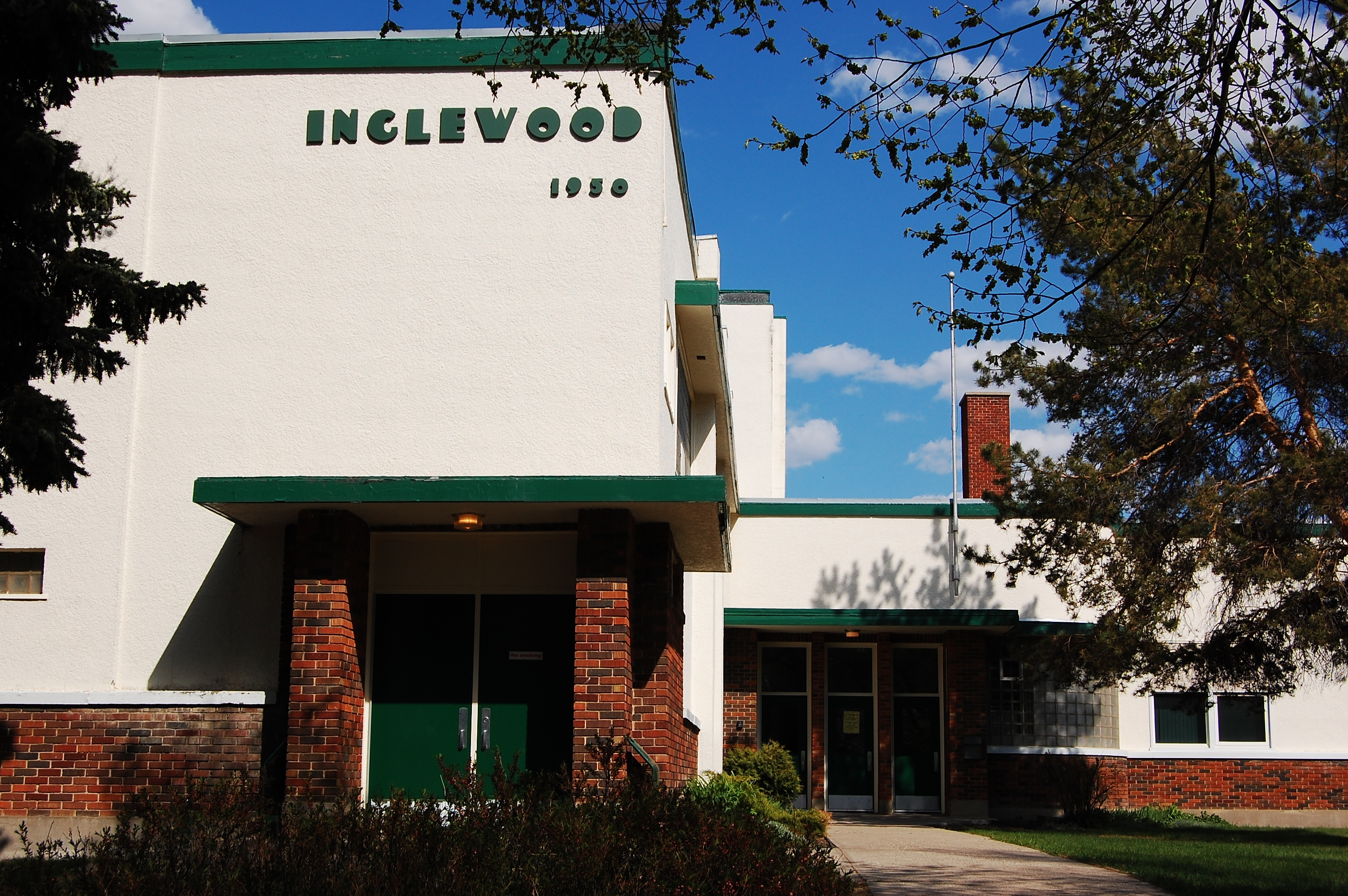 Detail of Inglewood Elementary Public School in Edmonton Alberta.